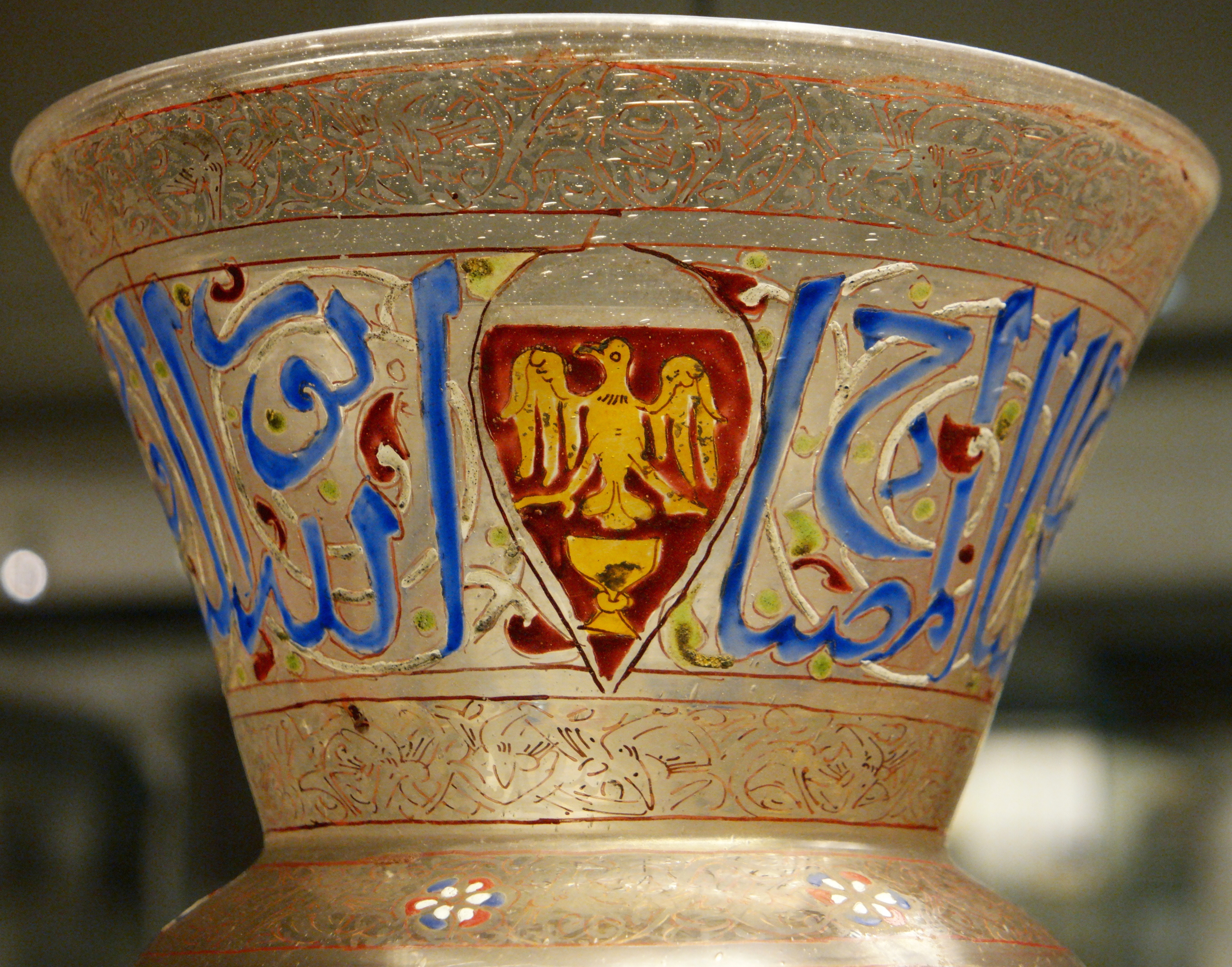 Egypt, mid 14th century. The lamp is inscribed in the name of the amir Sayf al-Din Tuquzdamur, cupbearer to the sultan. Museum number 1869,0624.1 Mosque-lamp. Made for Tuquztamur of Hama, officer of Sultan Muhammad ibn Qala'un. Made of gilded and enamelled glass. British Museum G47/dc12.